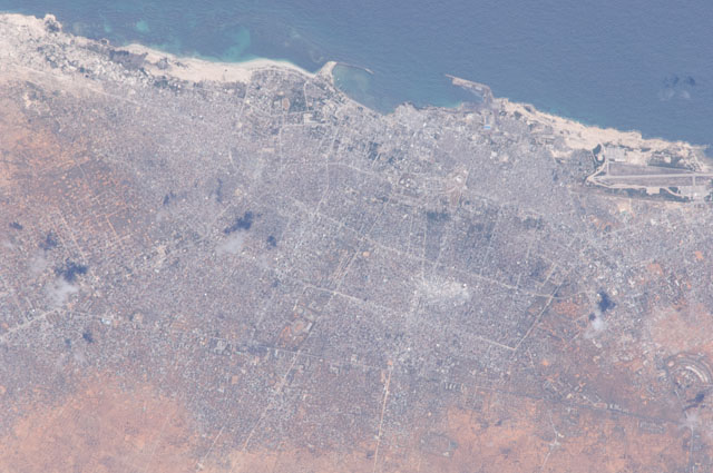 Astronaut Photo of Mogadishu, Somalia taken from the International Space Station (ISS) during Expedition 27 on April 2, 2011.